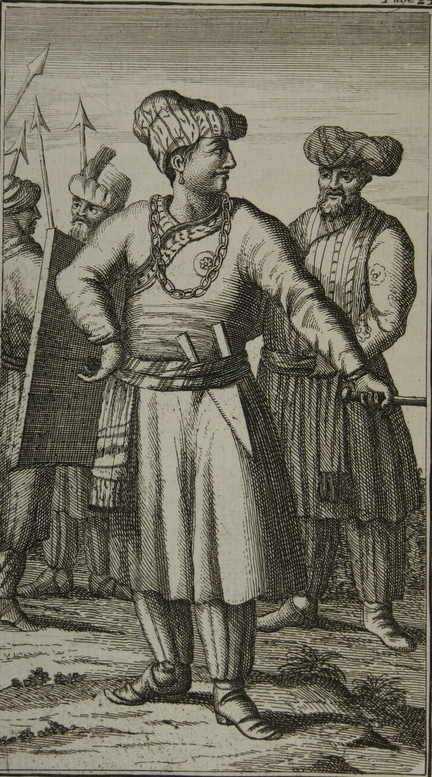 Aurangzeb and Shah Jahan, in copper engravings from "Modern History: or, the Present State of all Nations," by Thomas Salmon, published by Bettesworth & Hitch, London, 1739. More engravings: *Aurangzeb* (shown above) *Shah Jahan* (shown above) *The Indian god Ixora (Ishvara, or Shiva)* *Two forms in which the god Wistnow has appeared* *Banians and Brahmins* *Persians, and a Banian* *Hunting and hawking in Persia* *A Persian of quality, mounted* *A Persian caravanserai* *Chinese* *Chinese architectural plans* *Chinese idols* *The Chinese idol Dabis* *The porcelain tower of Nanking* *Japanese* *Siamese* *Siamese idols and convents* *Siamese architectural plans* *Tonkinese* *A Tonkin pagoda (with elephant and horse)* *People of Batavia* *Malayans at Batavia* *A merchant of Java* *Javanese* *Animals of Java* *Mountain people of Borneo* *A Borneo town* *Turkish gentleman and lady* *Constantinople* *Laplanders* *Russian ladies* *Charles XII, King of Sweden* *A Dutch Burghmaster and his wife* *Middleburgh and Utrecht* *The Stadthouse of Amsterdam* *The Vatican* *The inside of the amphitheater at Verona* *Roman statues* *Greeks* *Greek priests* *The grotto on Antiparos (Greece)* *Moors on the Barbary Coast* *Guineans* *Hottentot men* *Hottentot women* *Indians of North America* *Vitziputsli (Aztec god, Mexico)*